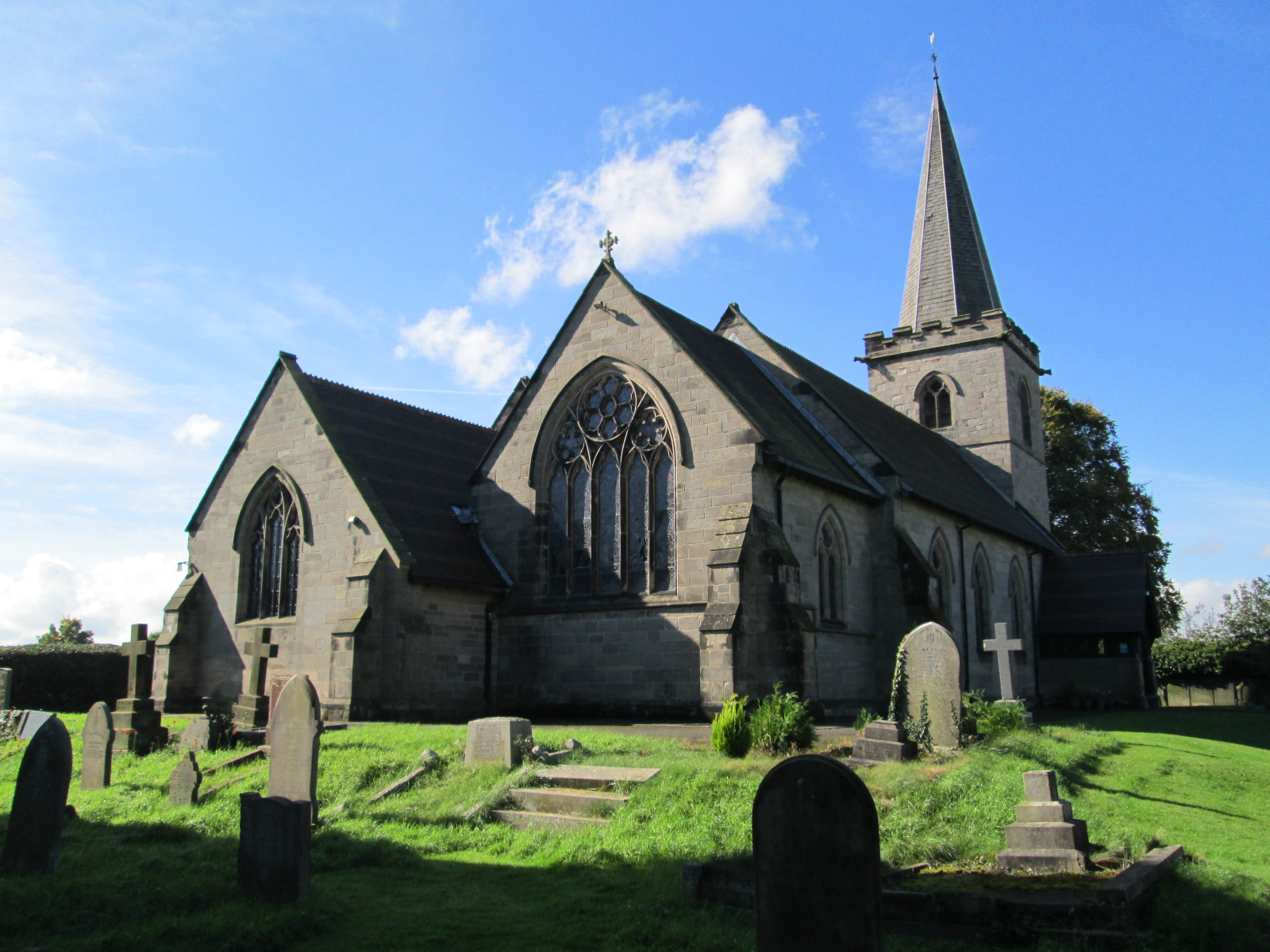 St Michael's Church in Rocester, Staffordshire, seen from the north-east.